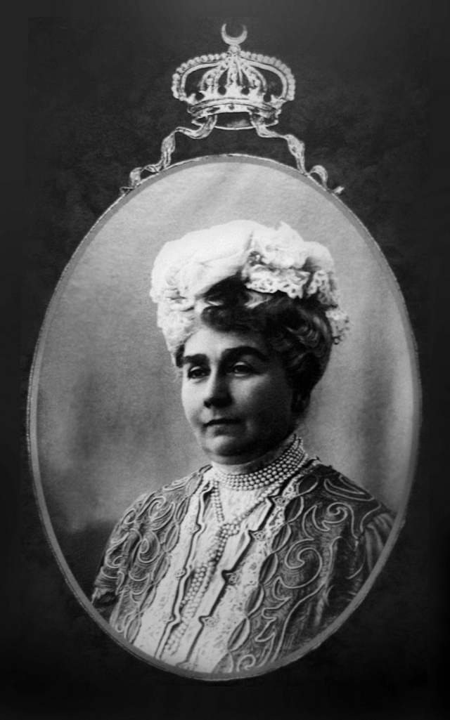 Khedive Amina Naciba wife of Tewfik Pasha